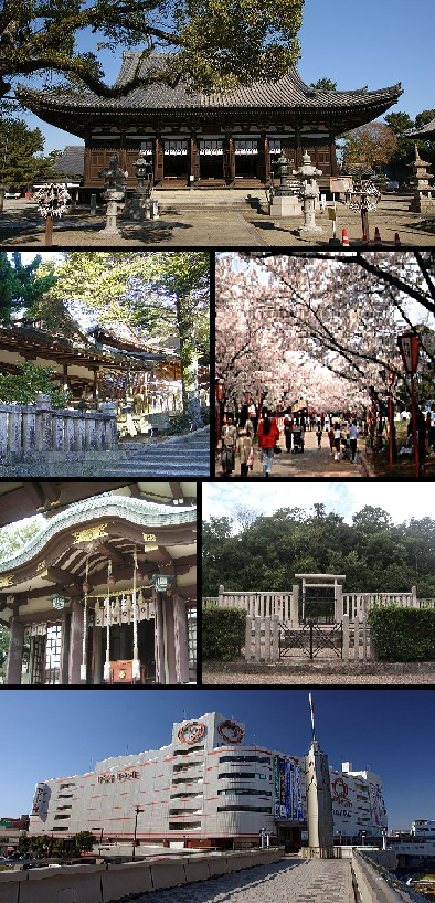 Kakogawa montages